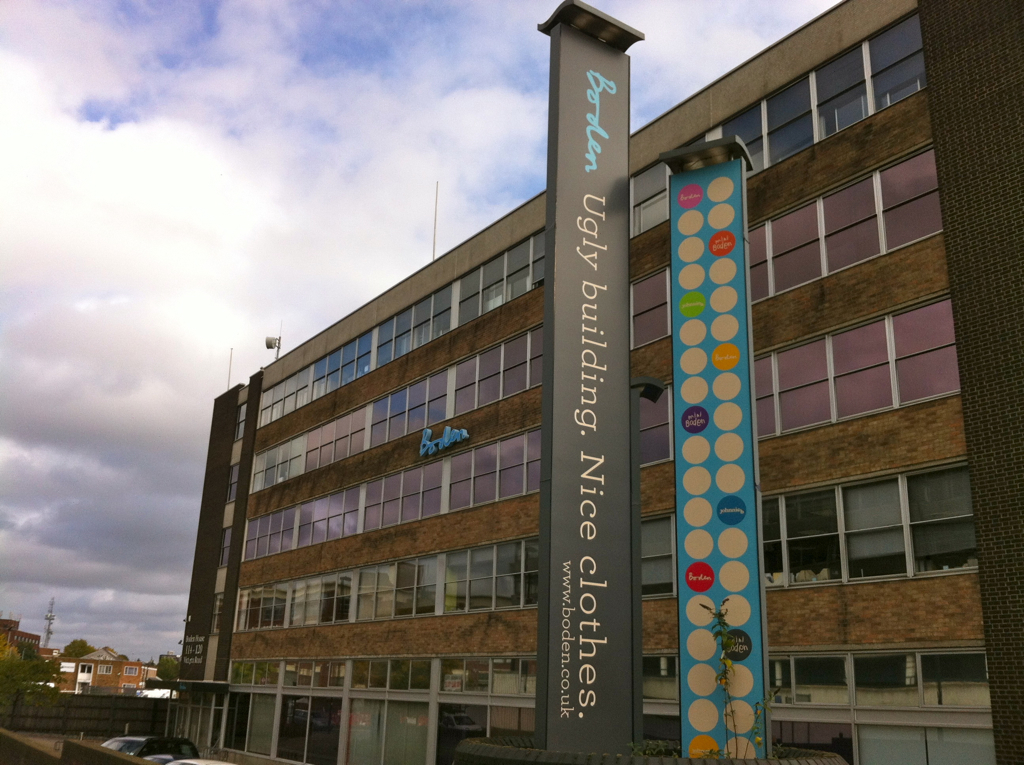 Boden's offices, Acton